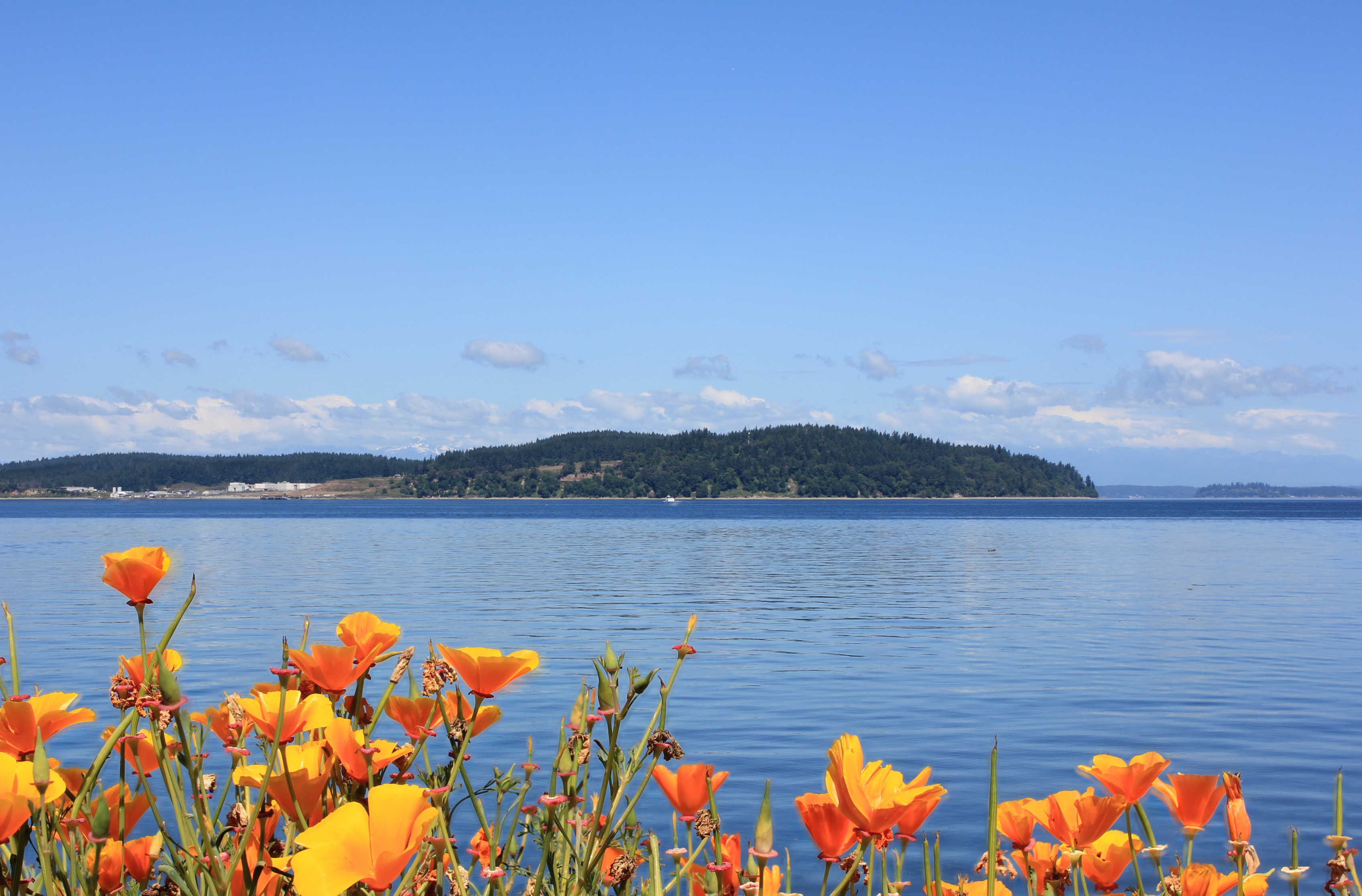 A view of Anderson Island and the Puget Sound from Steilacoom, Washington.